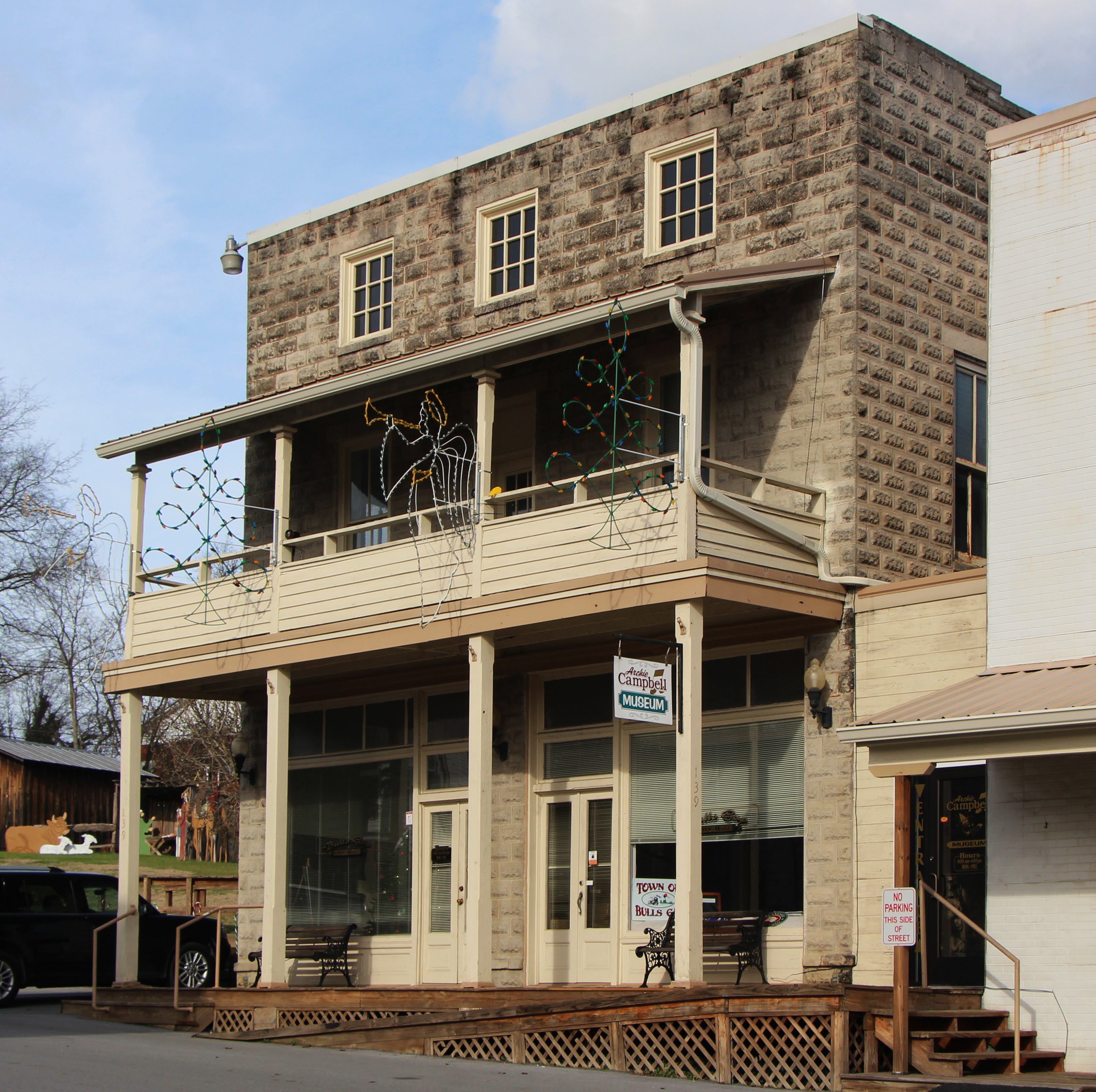 York Quillen, 139 South Main Street, Bulls Gap, TN